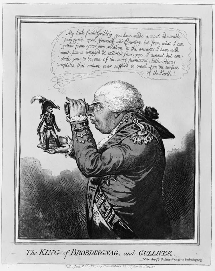 "The KING of BROBDINGNAG, and GULLIVER. -- Vide Swift's Gulliver: Voyage to Brobdingnag" The King says to Napoleon: "My little friend Grildrig, you have made a most admirable panegyric upon yourself and Country, but from what I can gather from your own relation [i.e. story] & the answers I have with much pains wringed & extorted from you, I cannot but conclude you to be one of the most pernicious little odious reptiles that nature ever suffer'd to crawl upon the surface of the Earth".